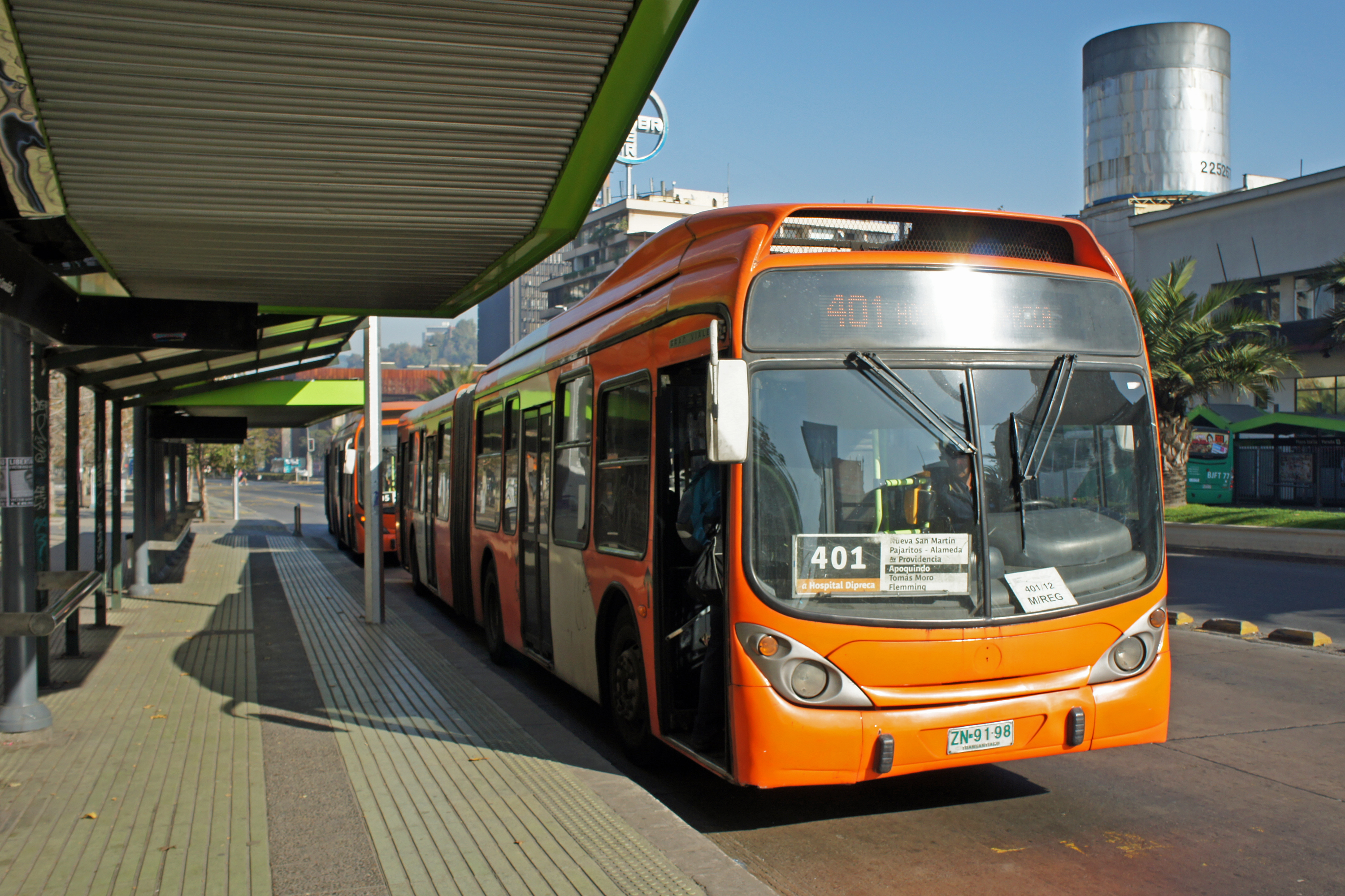 Transantiago articulated bus on Avenida Libertador General Bernardo O'Higgins, Bus stop 7, Plaza Italia. Santiago, Chile